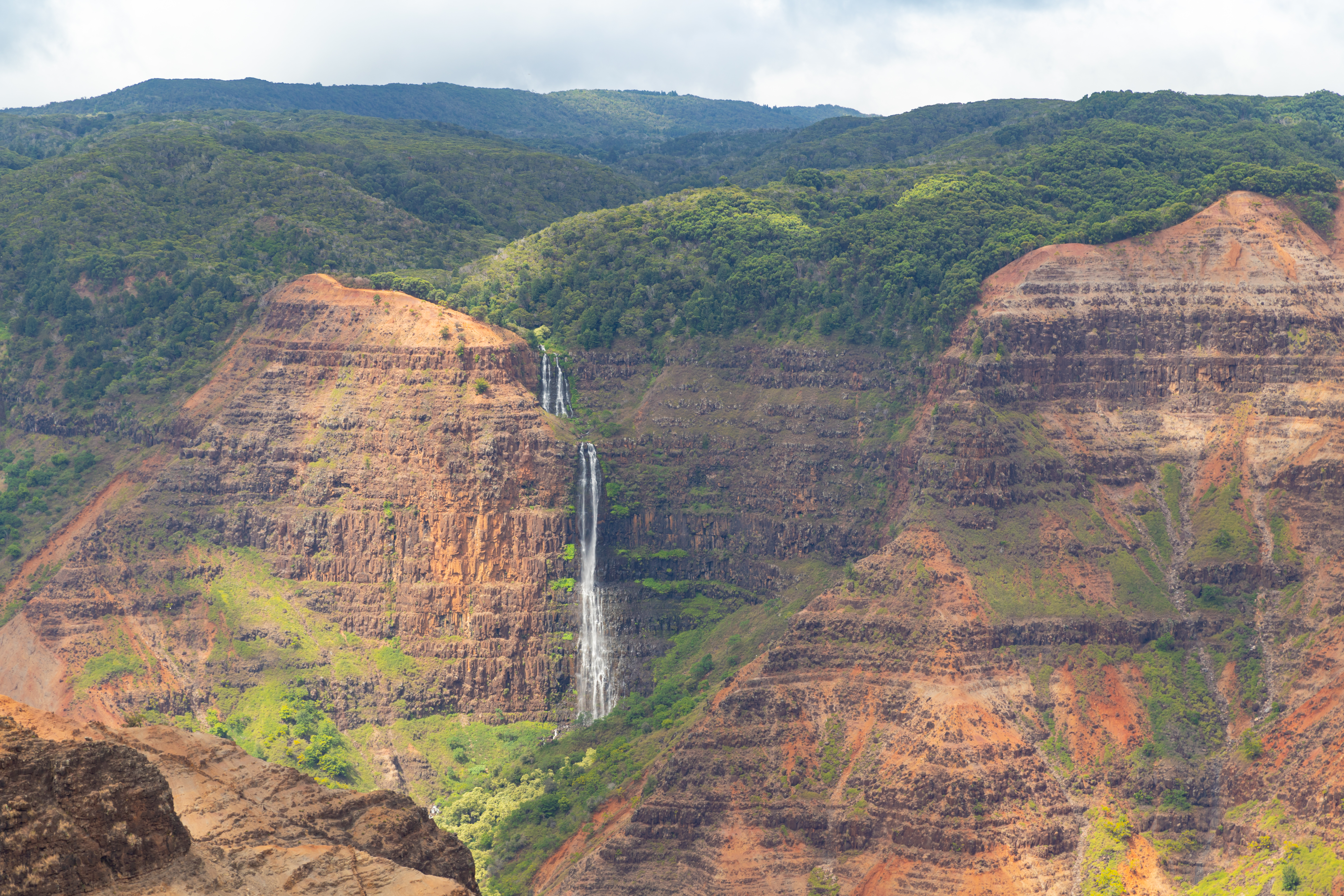 Waipo'o Falls Waimea Canyon Park waterfall Kauai, Hawaii